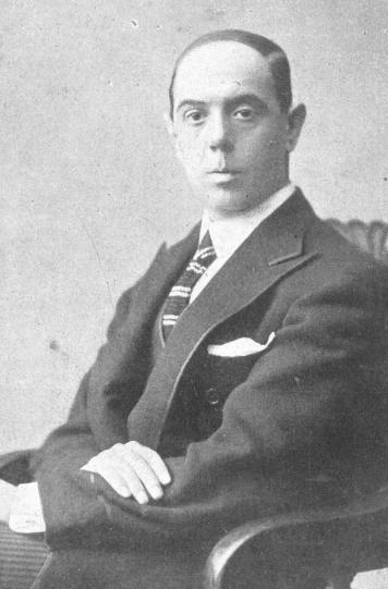 Spanish Politician Joaquín Salvatella